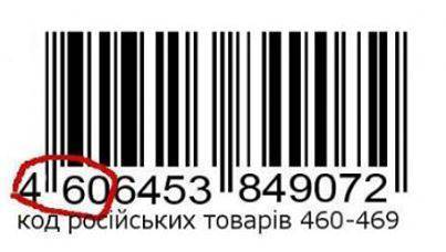 Poster asking not to buy russian goods (Boycot of russian goods in Ukraine)